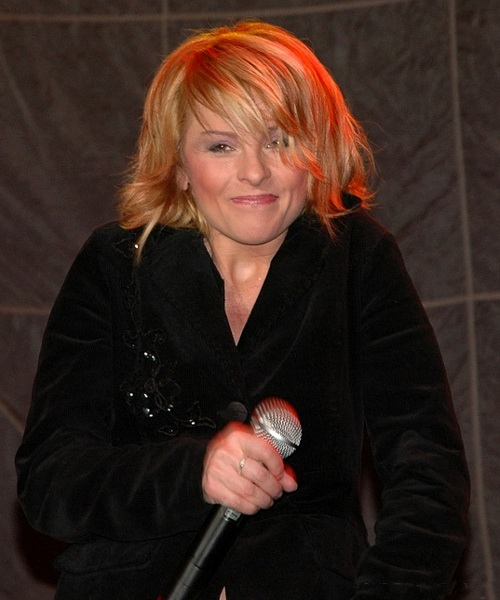 Singer Iveta Bartosova